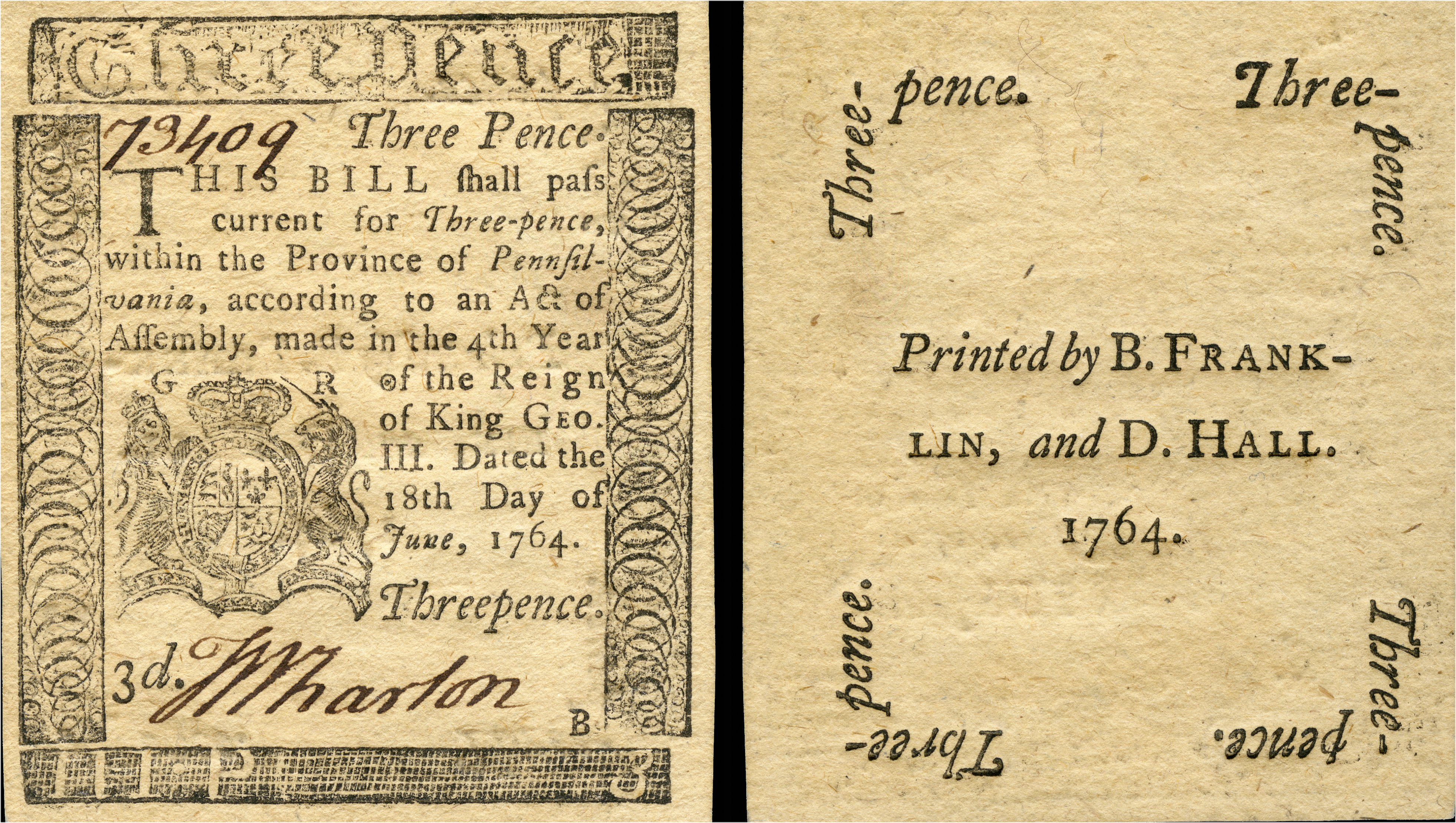 Three pence Colonial currency from the Province of Pennsylvania. Signed by Thomas Wharton. Printed by Benjamin Franklin and David Hall.